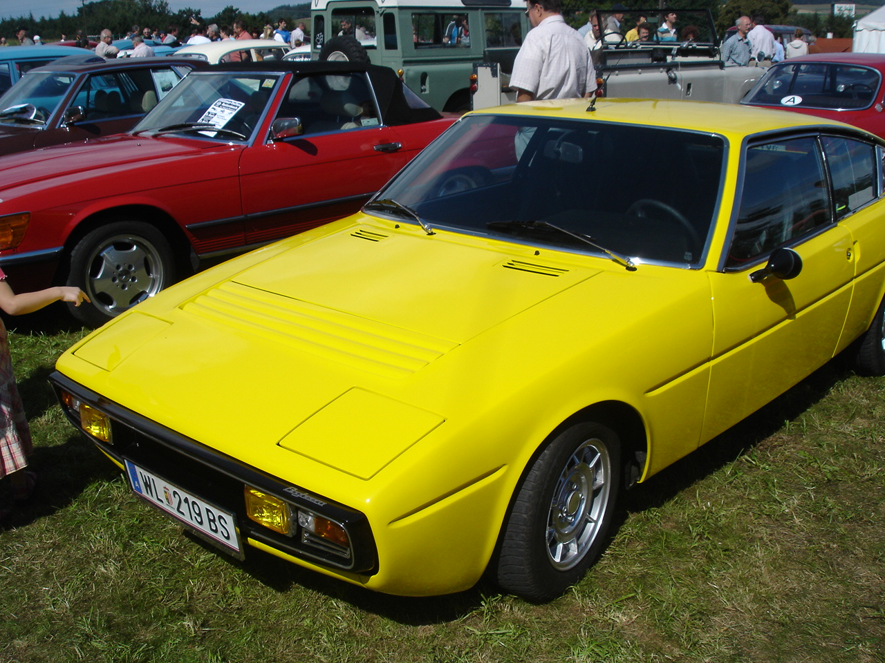 Matra-Simca Bagheera, model from 1973-1976